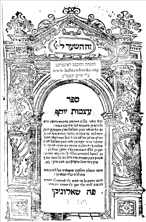 The front page of the Atzmois Yoisef on Kidushin.